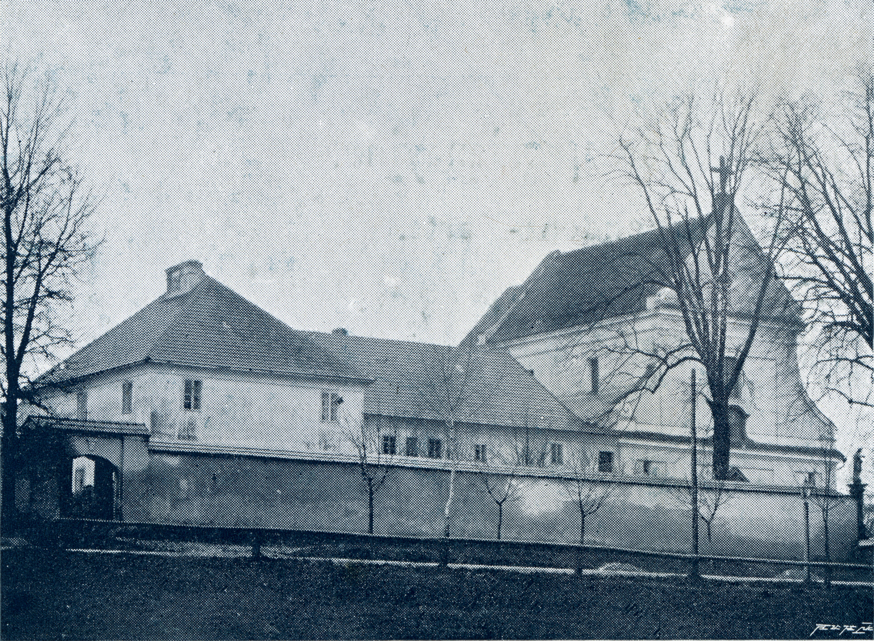 Monastery and st. Anthony's Church in Sędziszów Małopolski since beginning of 20th centry, Poland